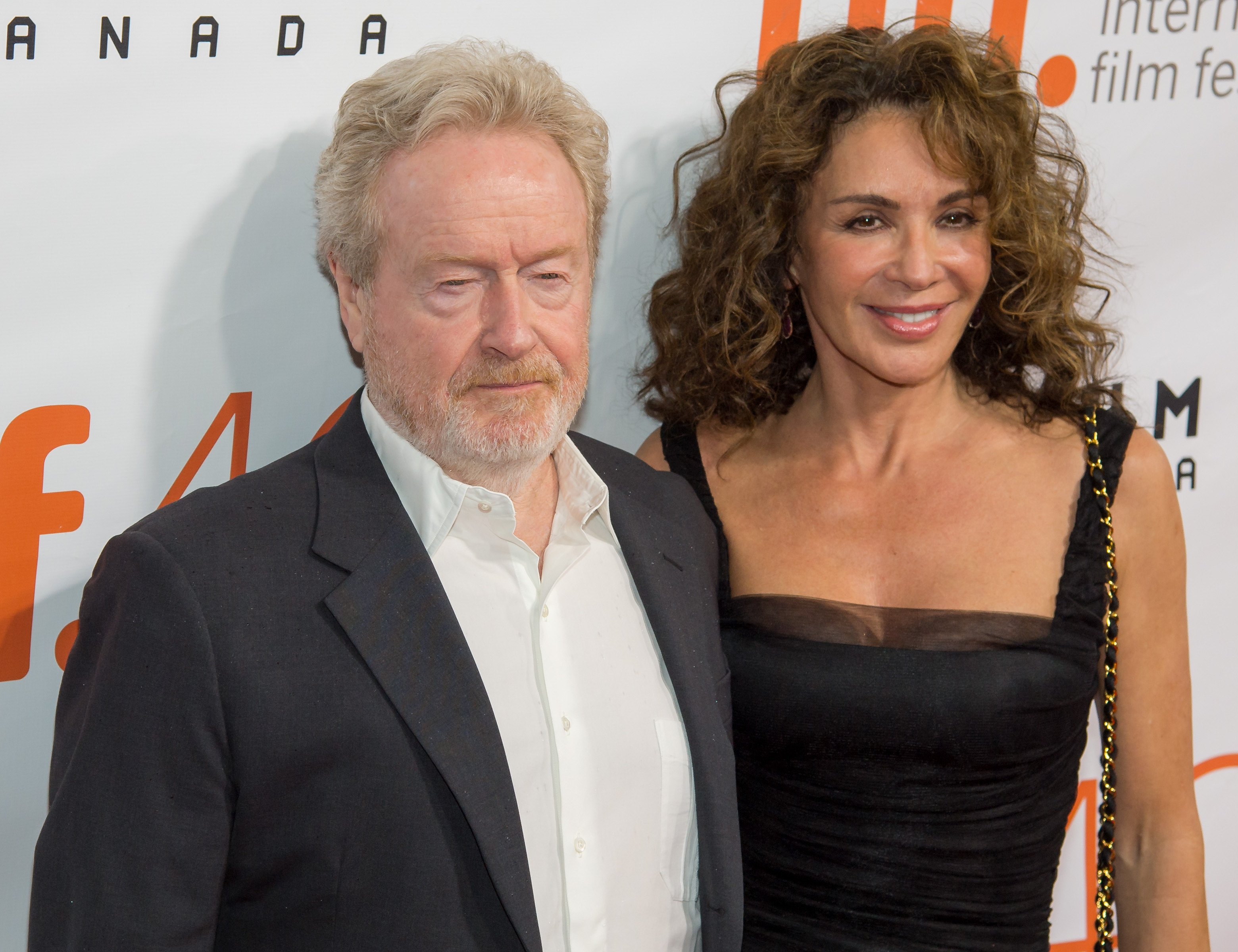 Director Ridley Scott and his wife Gianina Facio attend the world premiere for "The Martian” on day two of the Toronto International Film Festival at the Roy Thomson Hall Friday, Sept. 11, 2015 in Toronto. NASA scientists and engineers served as technical consultants on the film. The movie portrays a realistic view of the climate and topography of Mars, based on NASA data, and some of the challenges NASA faces as we prepare for human exploration of the Red Planet in the 2030s.